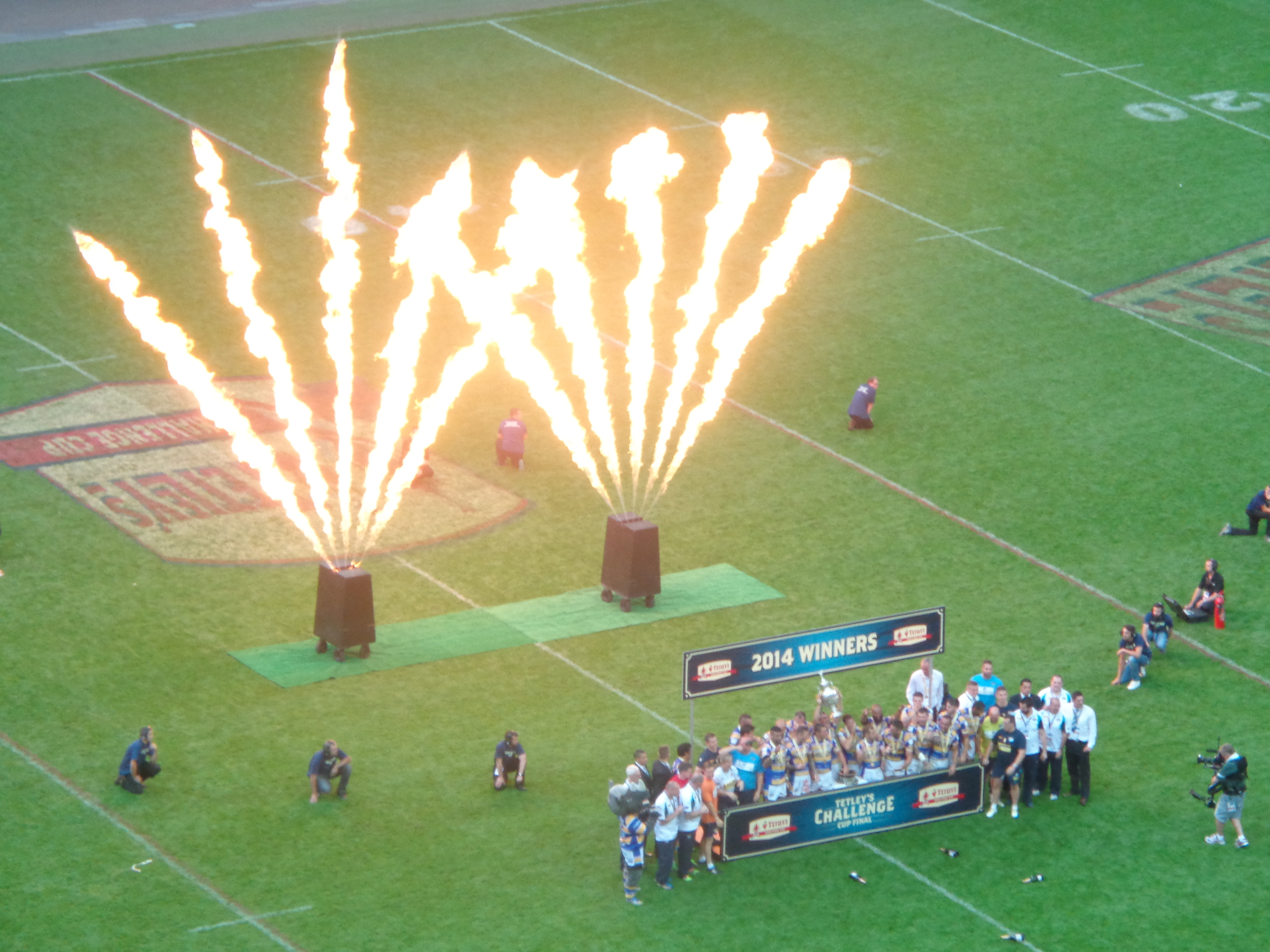 The victorious Leeds Rhinos being presented the cup team after the 2014 Challenge Cup Final between Leeds Rhinos and Castleford Tigers. The match was won 23-10 by the Leeds Rhinos with Ryan Hall taking the Lance Todd Trophy and was kicked off on 3pm on Saturday the 23rd of August 2014.